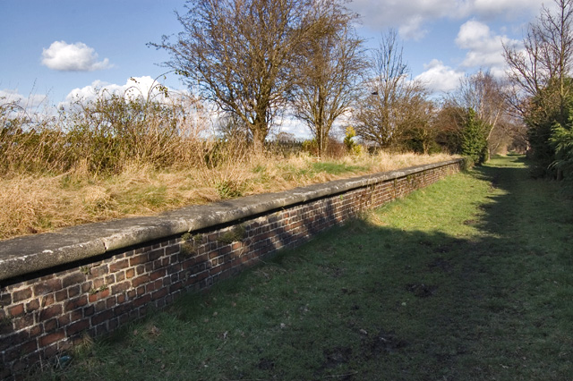 Former station, Holme-on-Spalding-Moor, East Riding of Yorkshire, England.The platform seen here, and the former station house (now residential, to the right of this shot) are all that remain of the station. It was on the Market Weighton and Selby branch of the North-Eastern Railway, the trackbed of which now forms the Howdenshire Rail Trail, a nine-mile stretch of permissive bridleway.